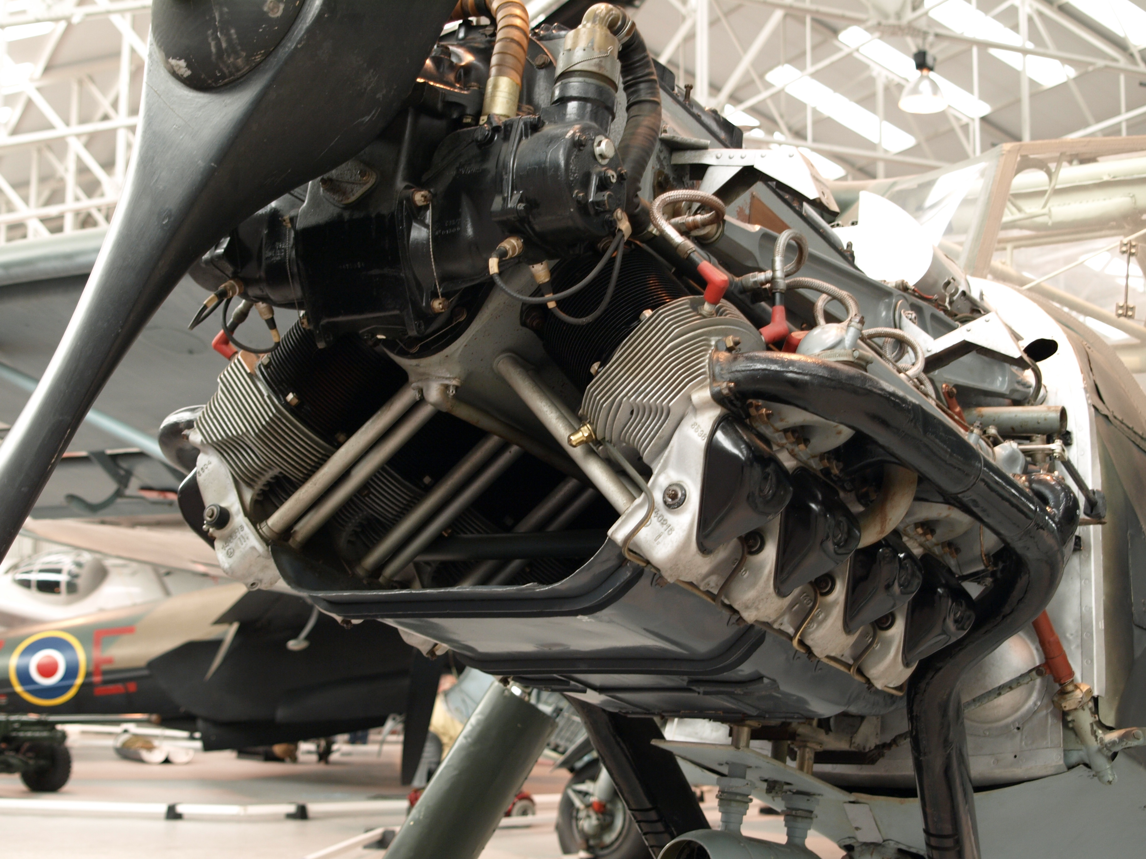 Argus As 10 aero engine installed in a Fieseler Fi 156 at the Royal Air Force Museum Cosford